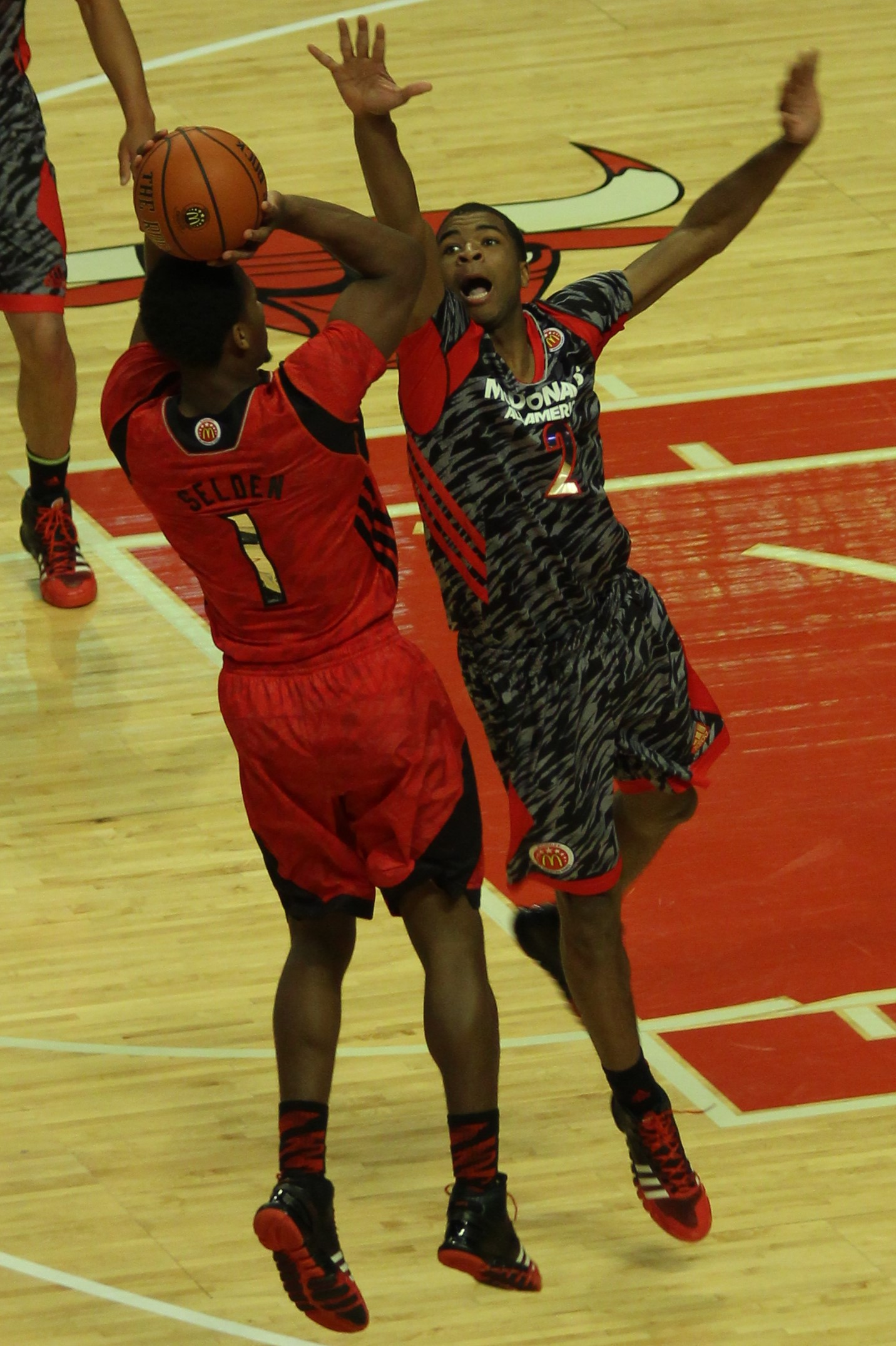 Wayne Selden, Jr. jump shot over Aaron Harrison at the w:2013 McDonald's All-American Boys Game